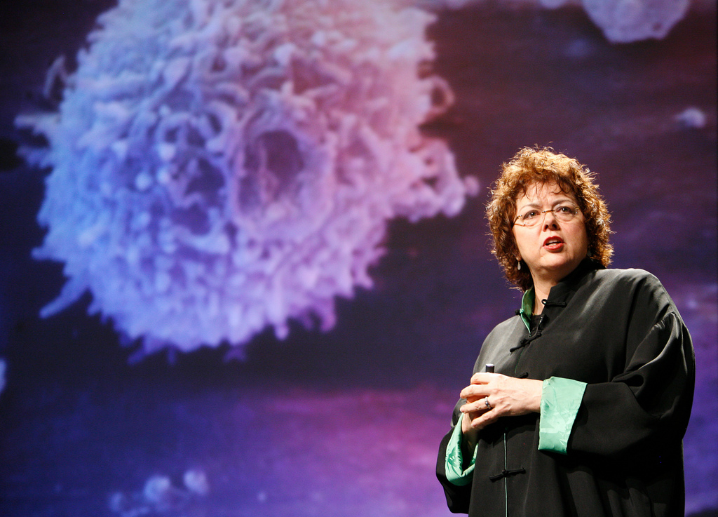 Laurie Garrett speaking at Poptech 2008. Photographed by Kris Krug.